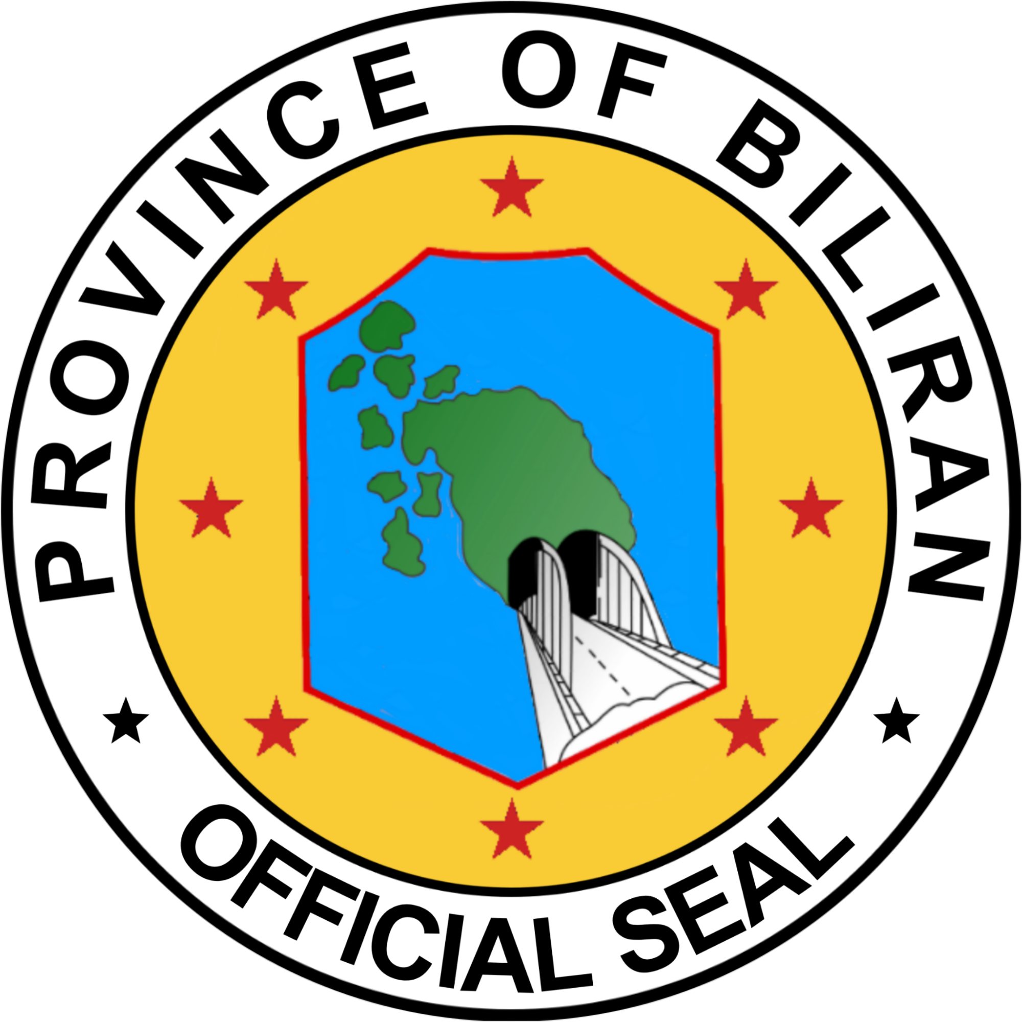 Seal of the Province of Biliran